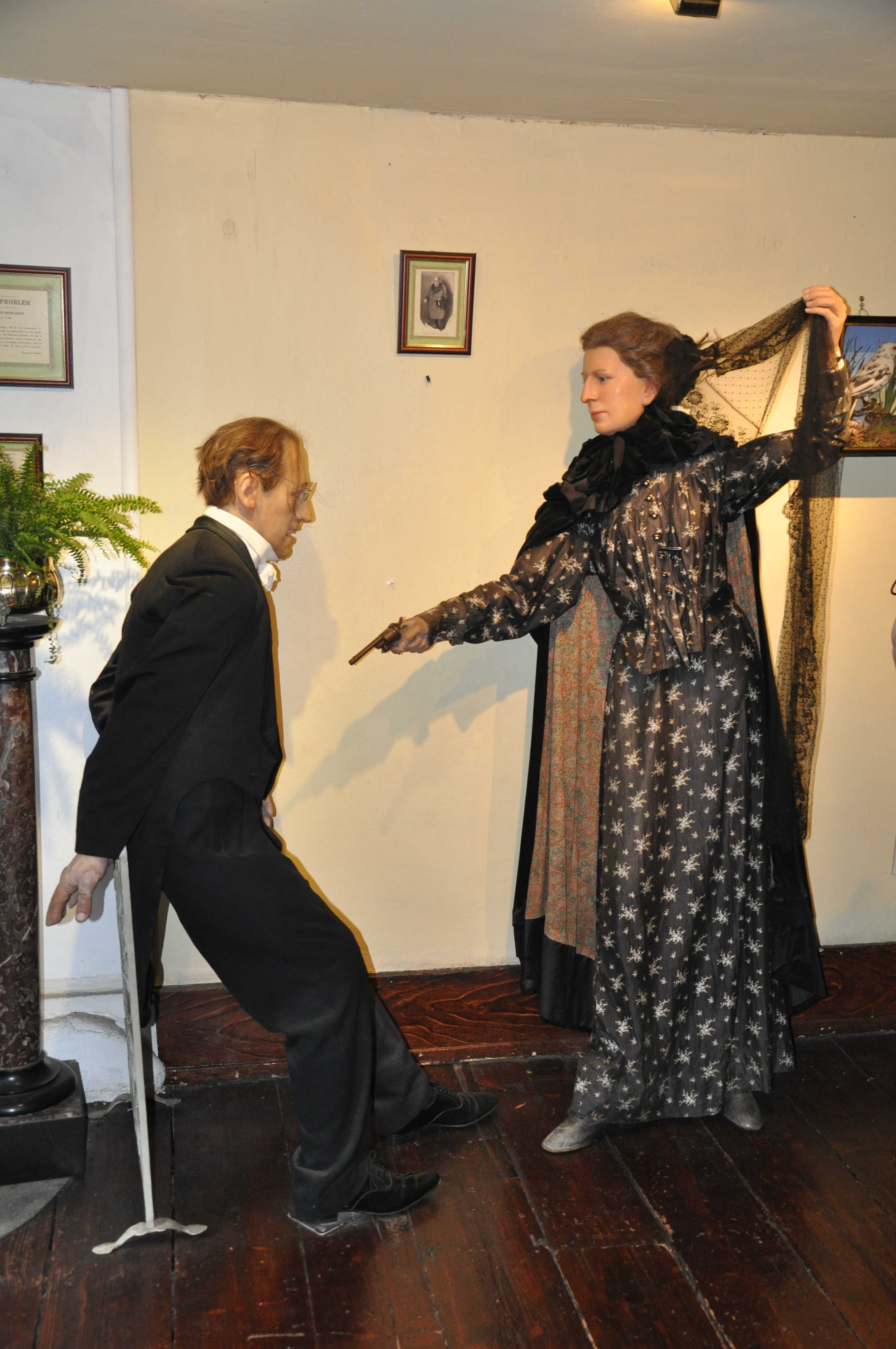 Sherlock Holmes Museum, Baker Street, London Figures illustrating "The Adventure of Charles Augustus Milverton"